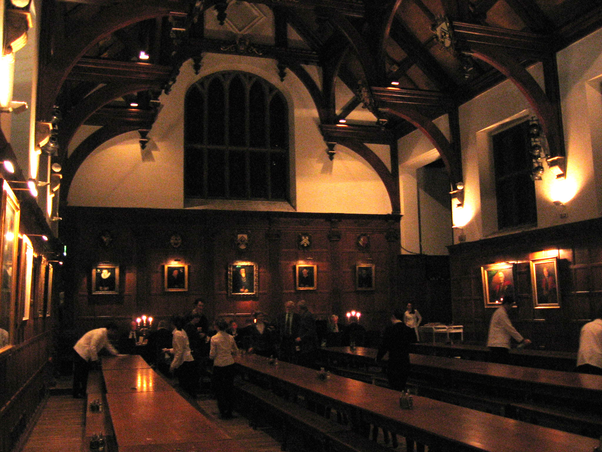 Gonville And Caius Formal Hall